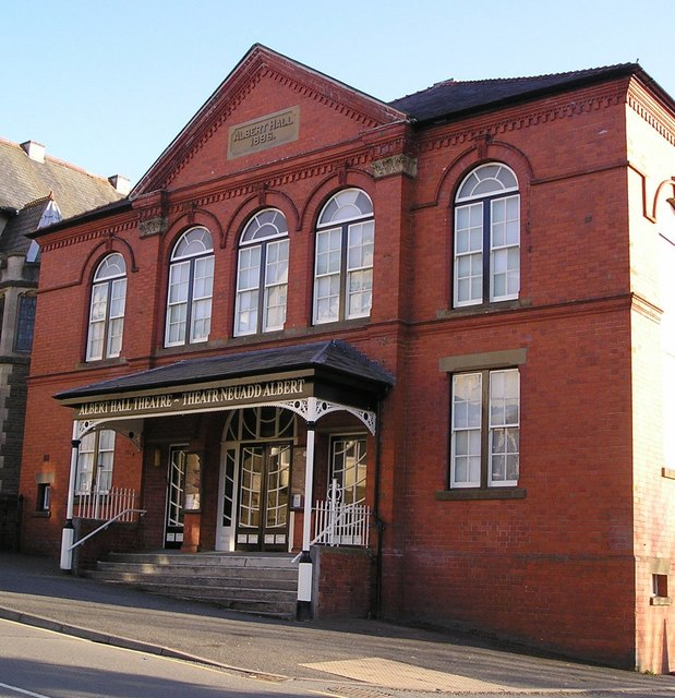 Albert Hall, Llandrindod Wells The Albert Hall is a period Victorian building, retaining many of its Victorian features inside. There is a wide range of productions including pantomime, drama, concerts and music hall. A restoration programme started in 2007, which included a new roof.